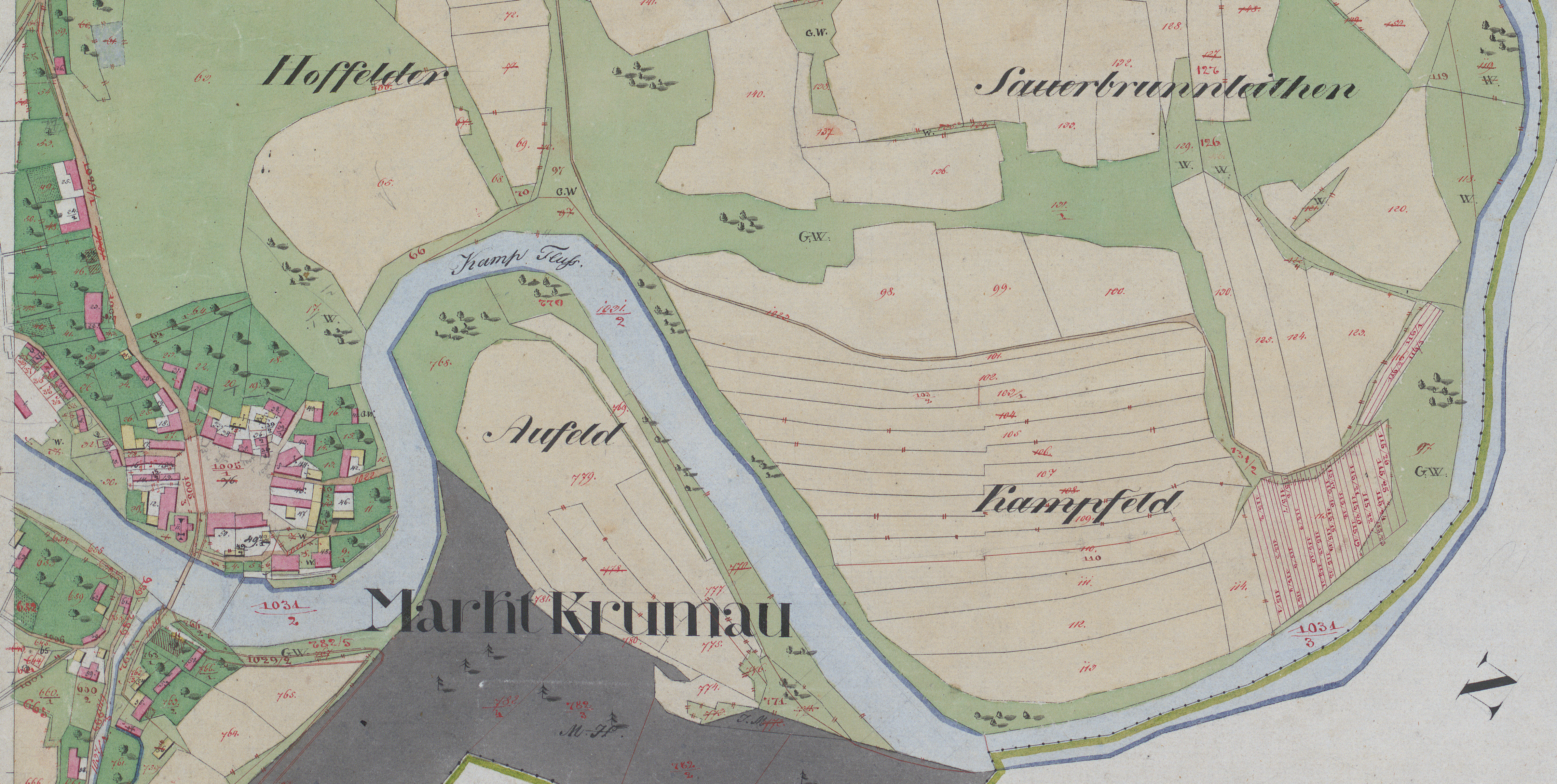 historic map from the Second Military Mapping Survey of the Austrian Empire, Krumau am Kamp 1823